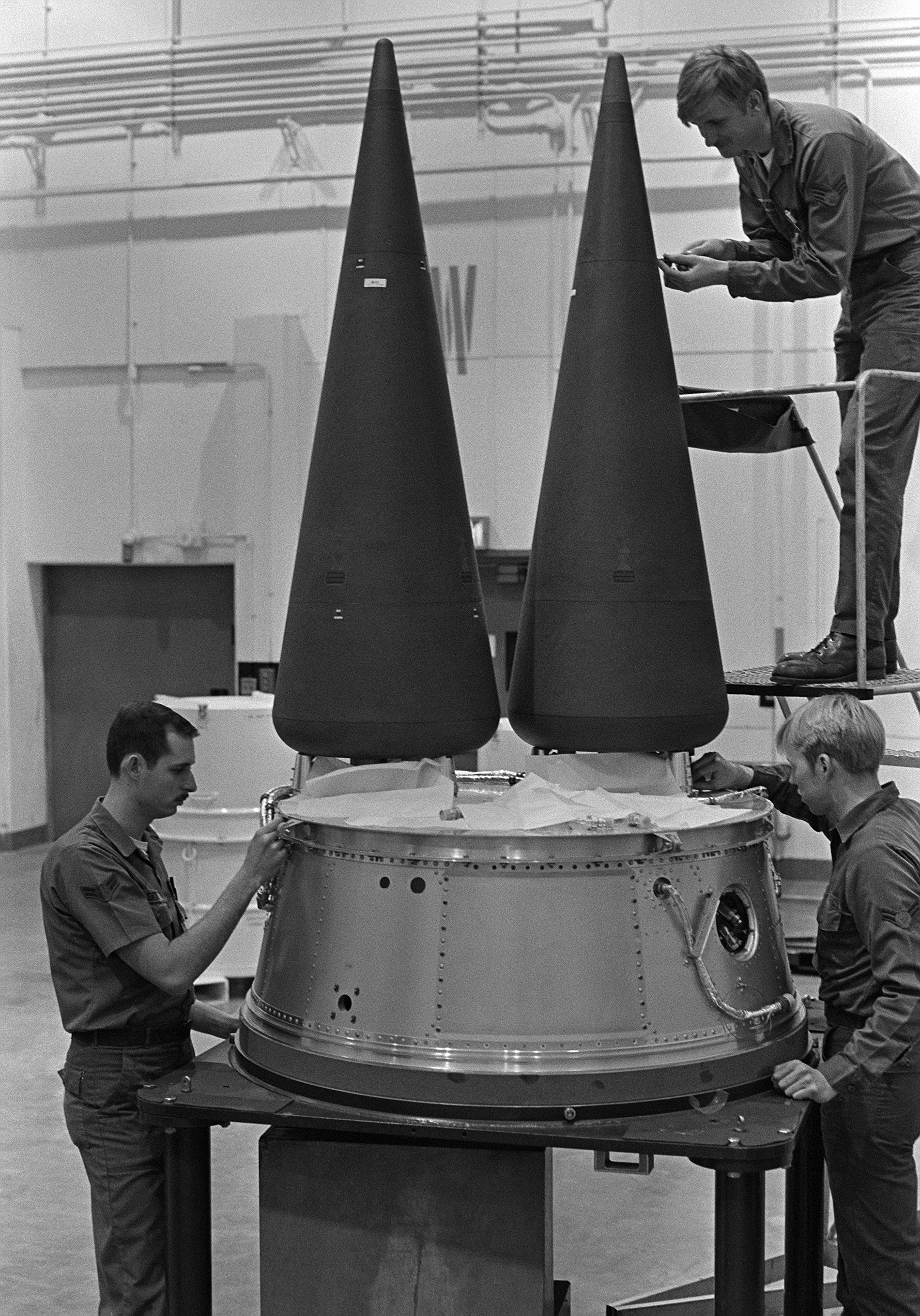 Airmen work on a Minuteman III’s Multiple Independently-targetable Re-entry Vehicle (MIRV) system. Current missiles carry a single warhead. Technicians work on the W62 Mk-12 warheads of an LGM-30G Minuteman III intercontinental ballistic missile. Location: Malstrom Air Force Base, Montana (MT) United States Of America (USA)